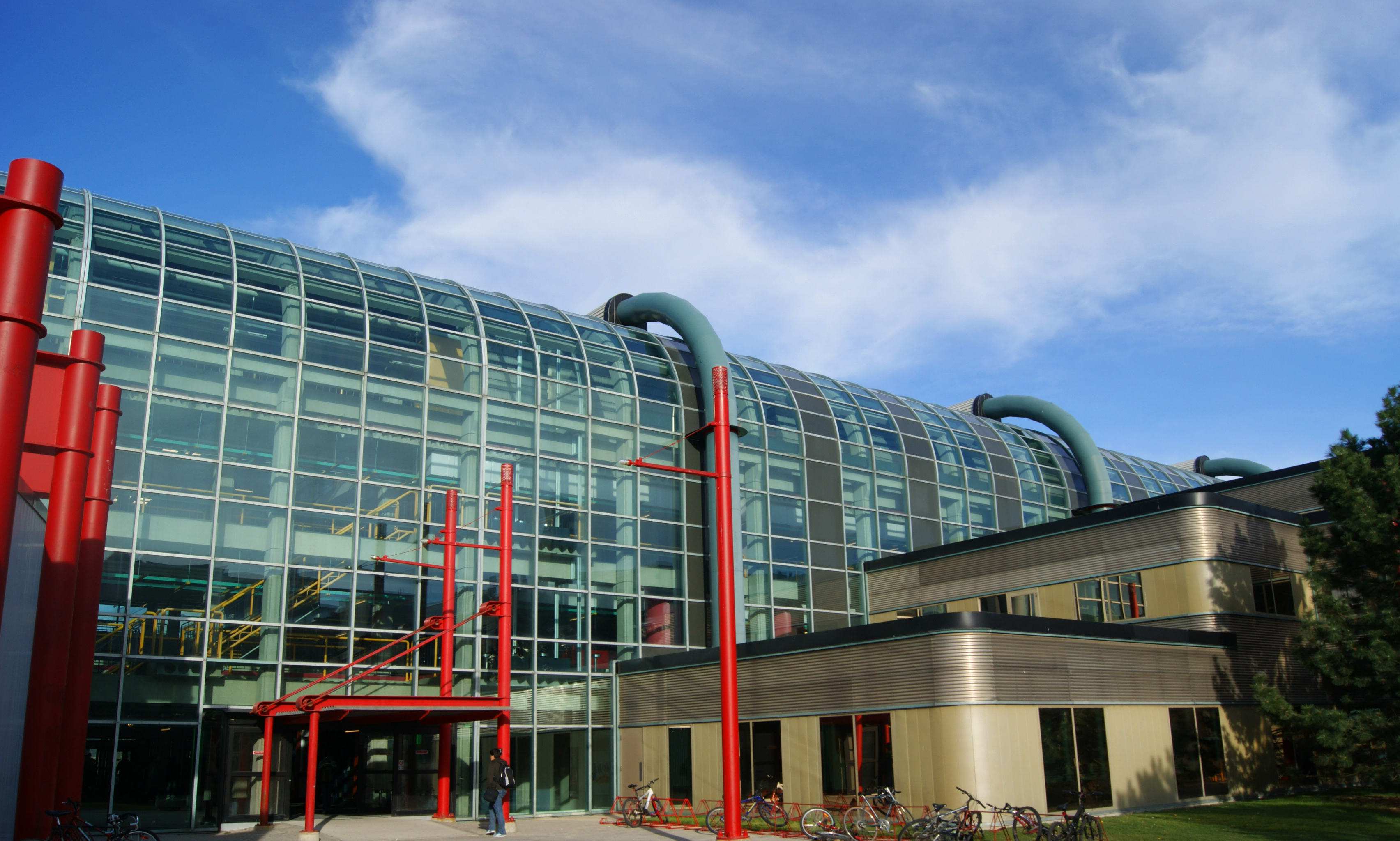 An exterior of the interesting DC